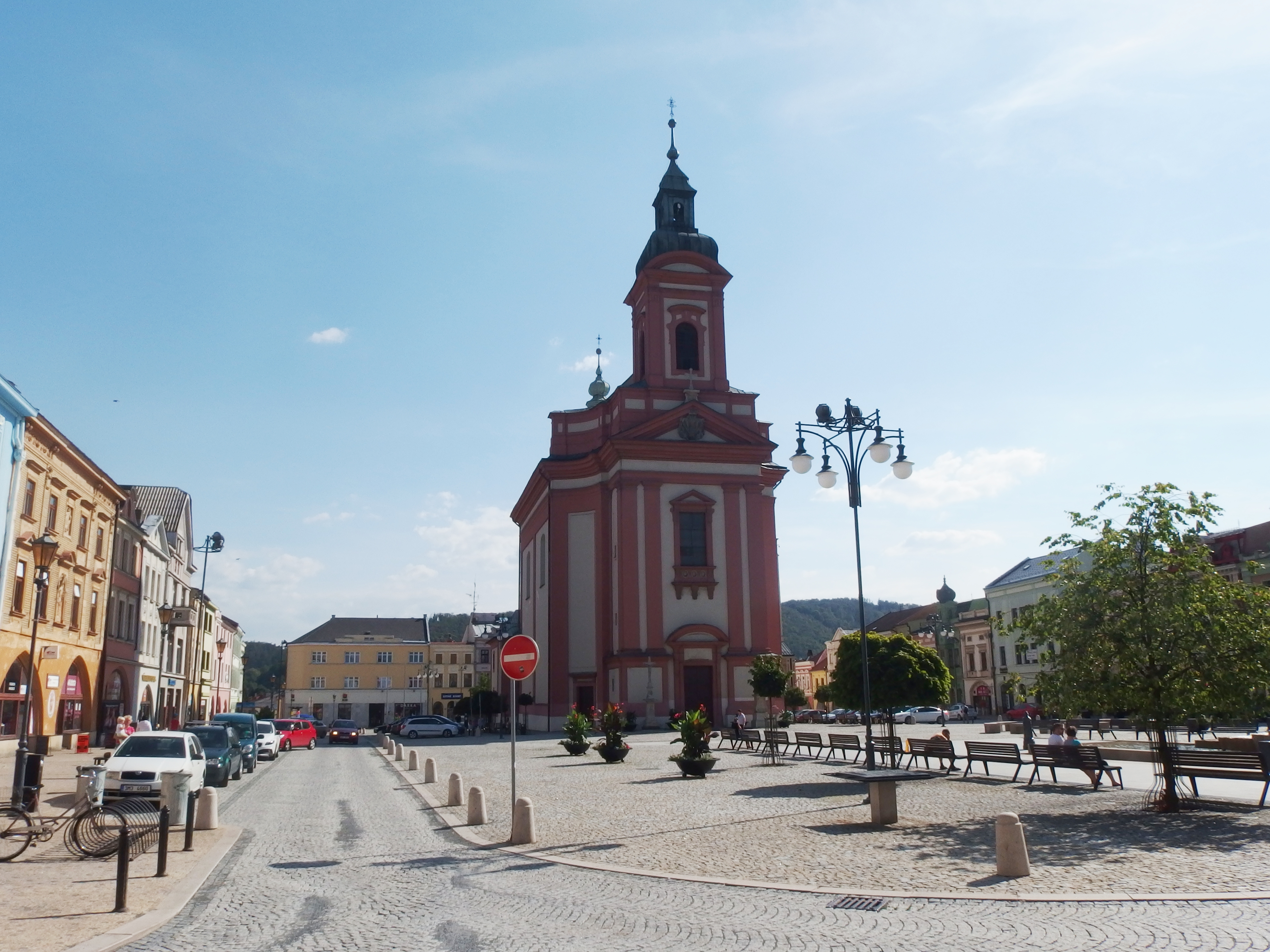 Hranice, Přerov District, Czech Republic. Masarykovo náměstí square.